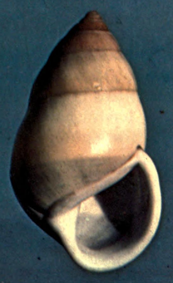 Photo of apertural view of the shell of holotype of Amphidromus perversus butoti. Locality: Bajutan, Kangean Island. Collected by Hoogerwerf on 20 August 1954. Zoologisch Museum, Amsterdam.